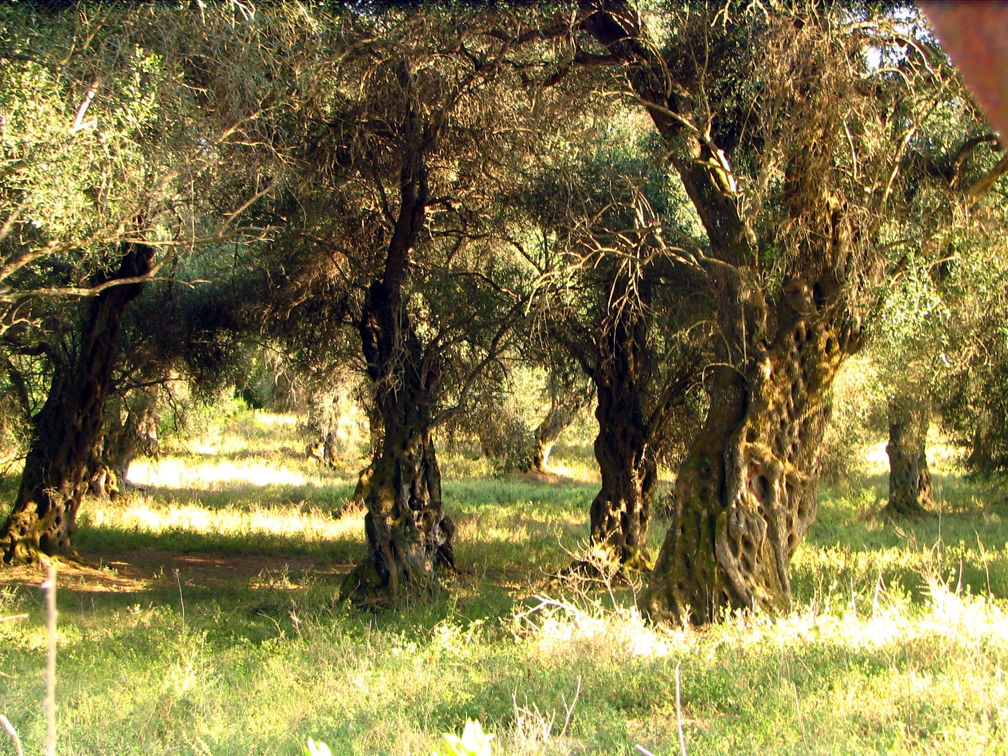 Olive trees near Moraitika, Corfu, Greece